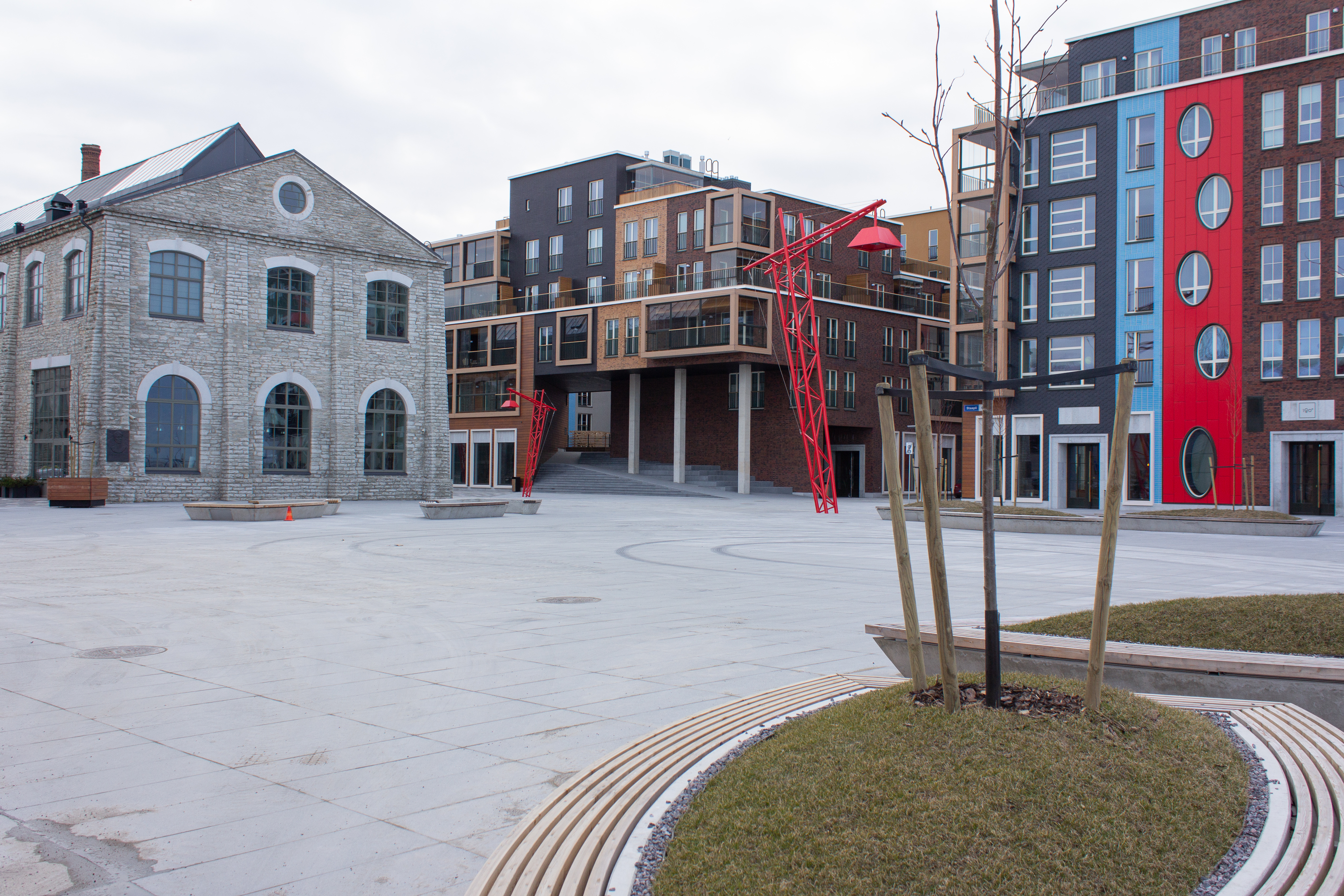 Adam Johann von Krusenstern Square in Tallinn (Estonia), March 2019